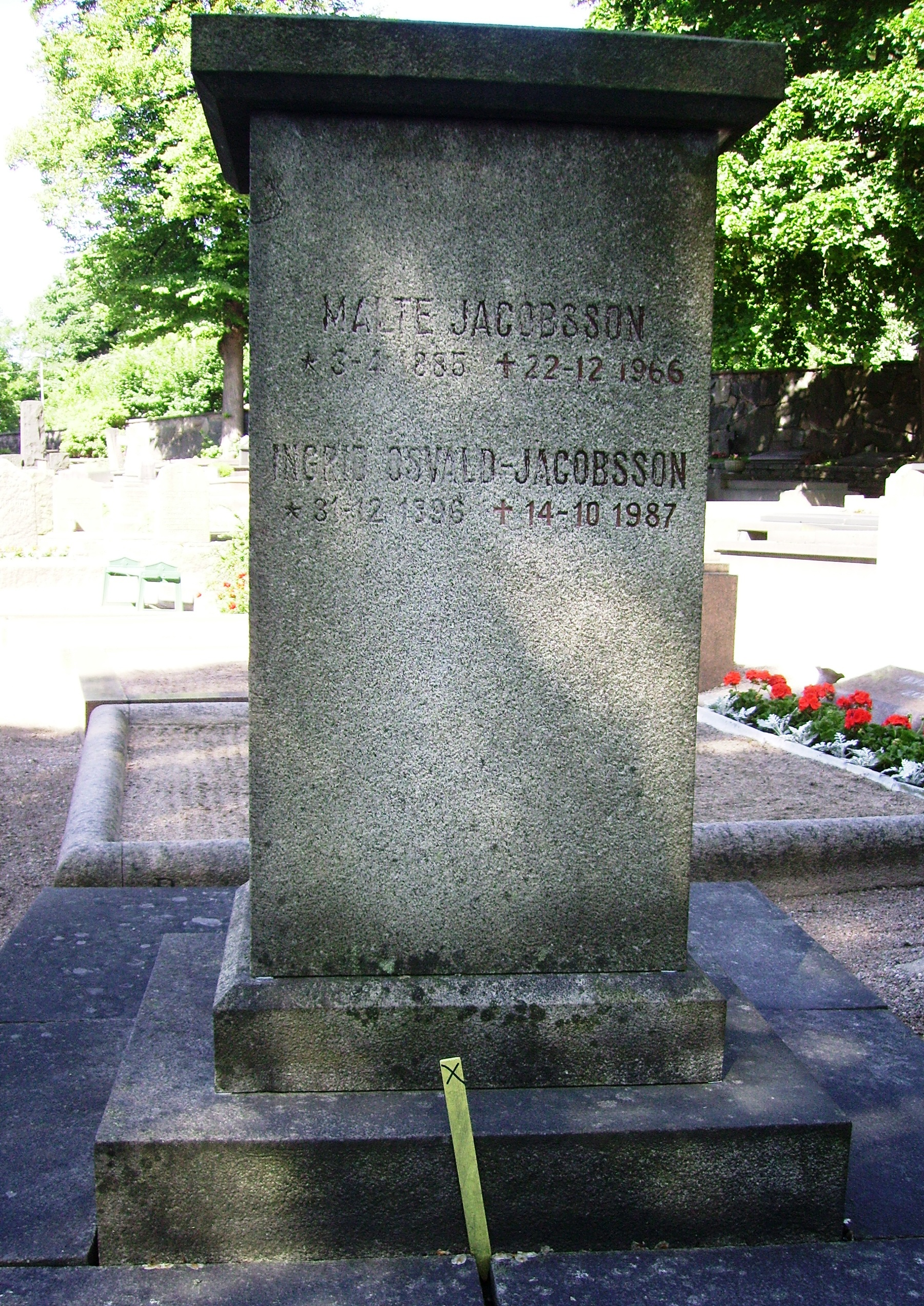 Picture of Malte Jacobsson's grave at Örgryte gamla kyrkogård in Gothenburg